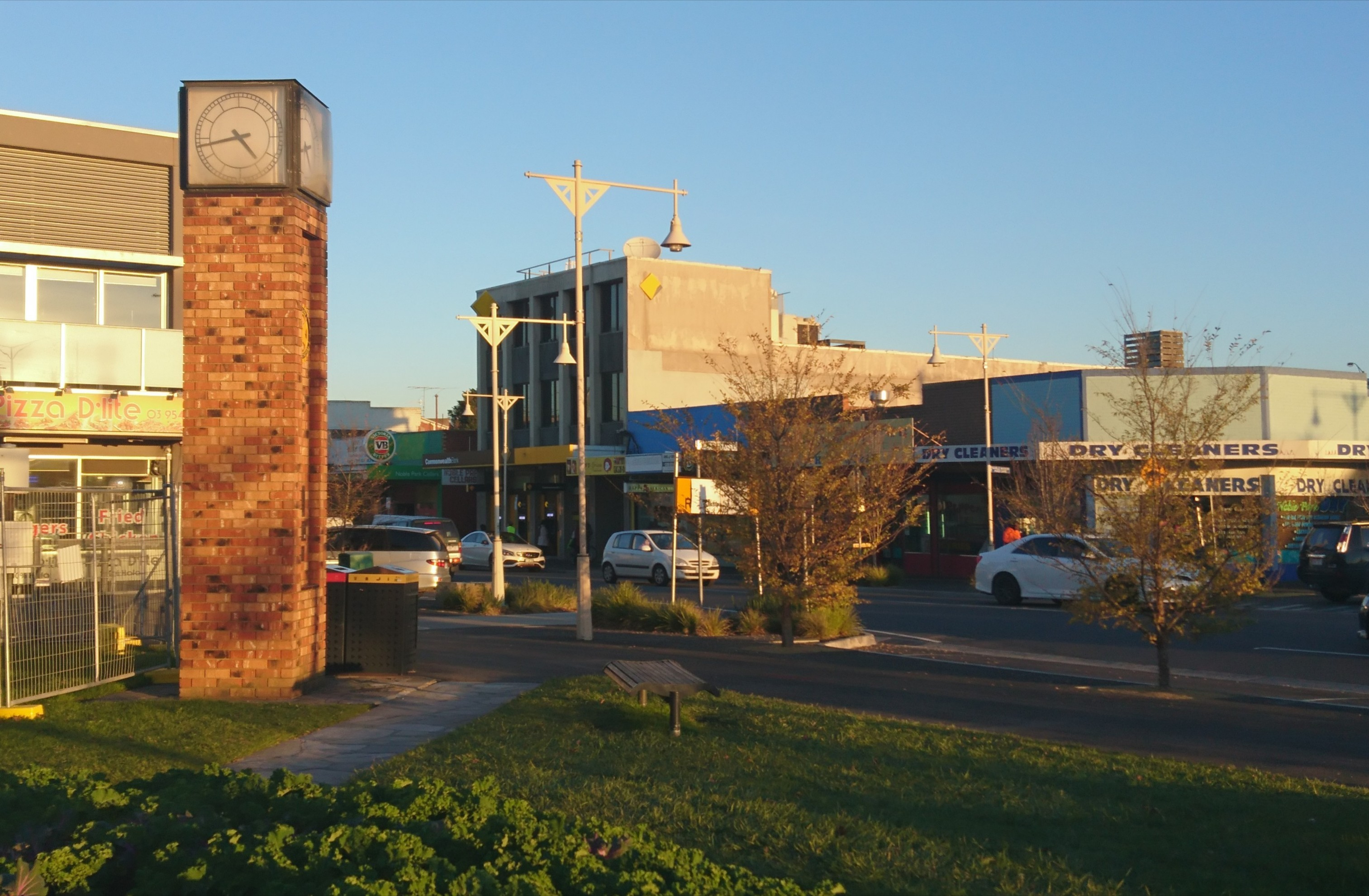 Noble Park's commercial centre